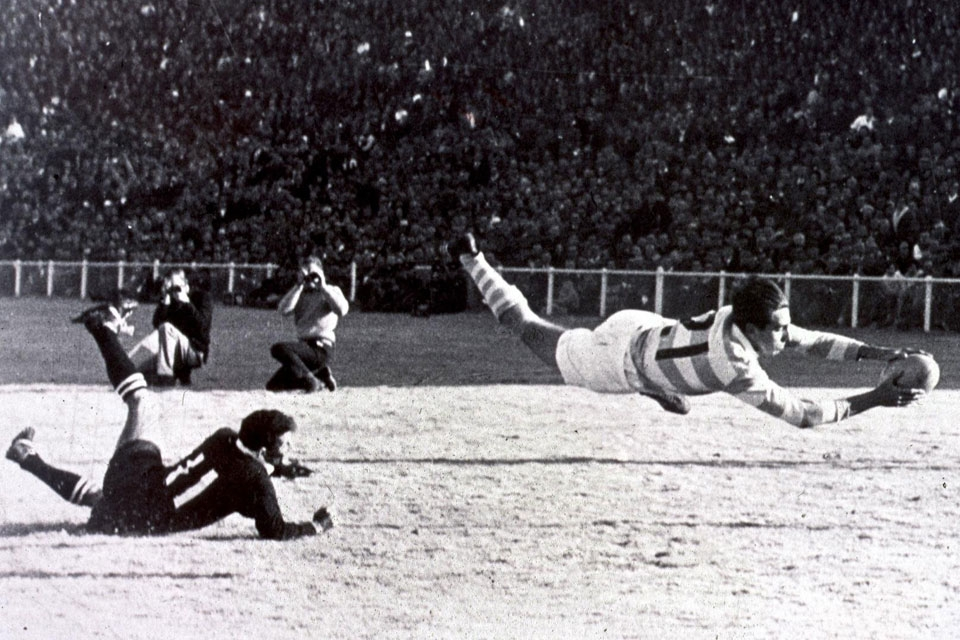 Marcelo Pascual diving in the ingoal of Junior Springboaks in 1965, Los Pumas' first great international victory.